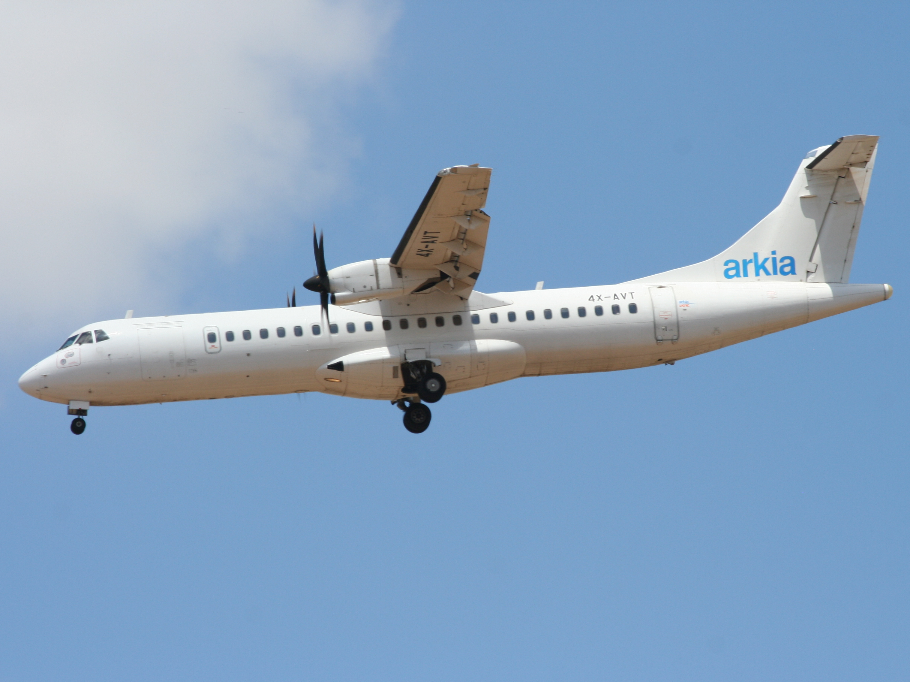 Landing at Ben Gurion International airport.